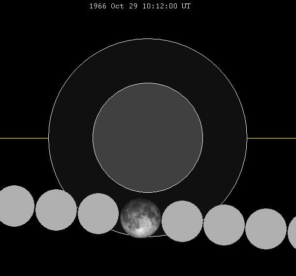 October 1966 lunar eclipse chart of moon's path through the earth's shadow. thumb